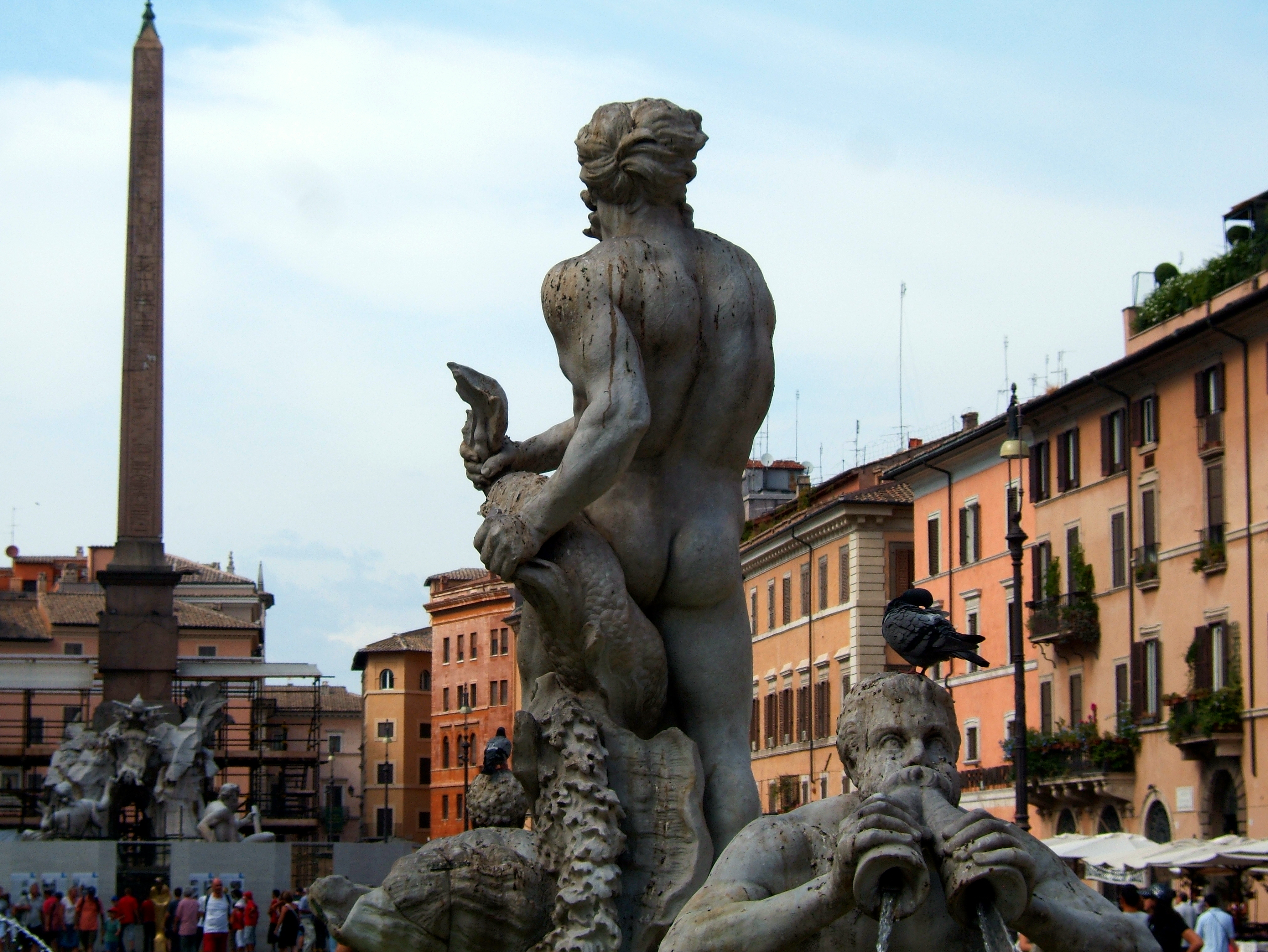 Neptune Fountain, Piazza Navona Location: Rome.